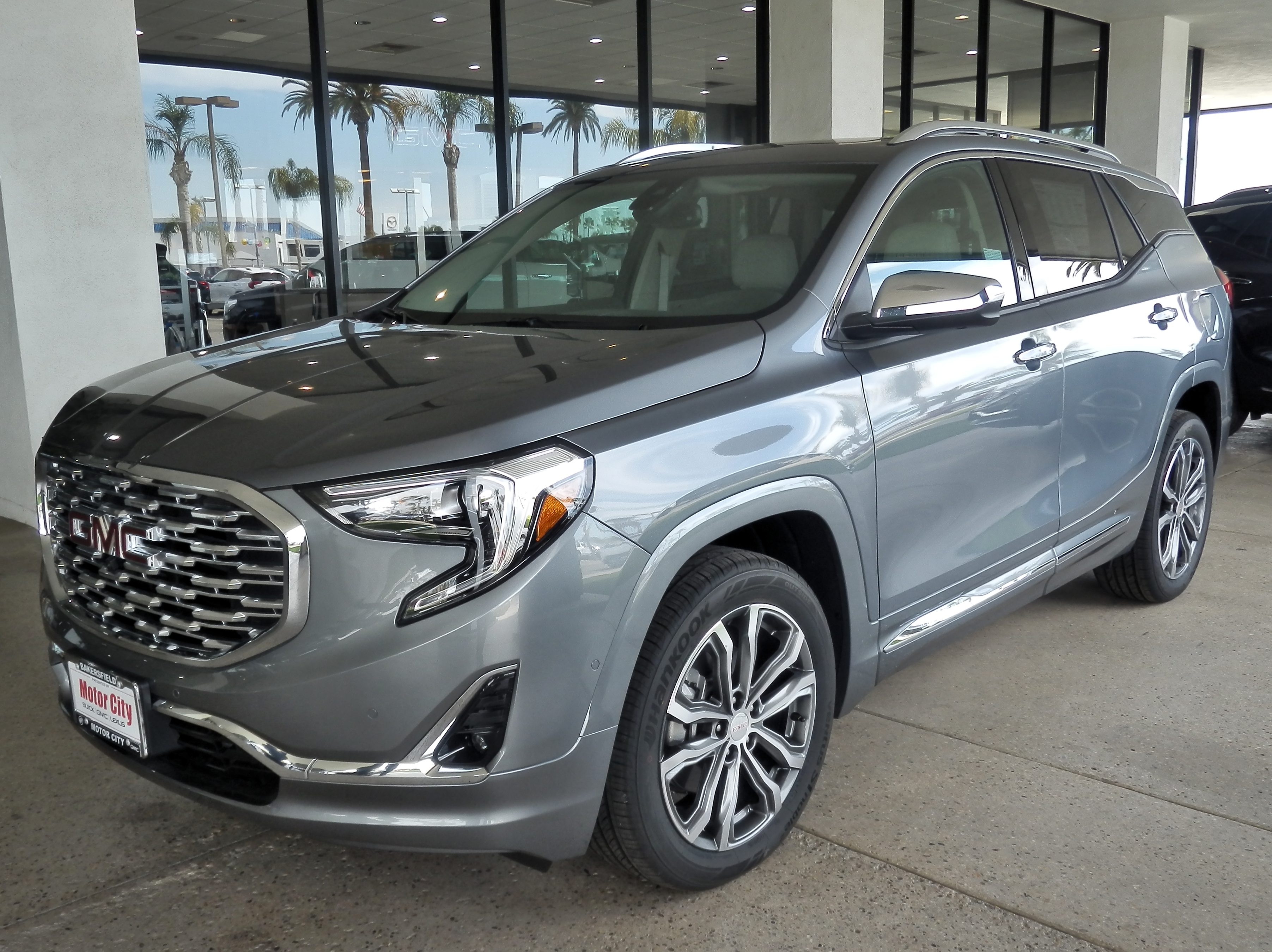 GMC Terrain in Bakersfield